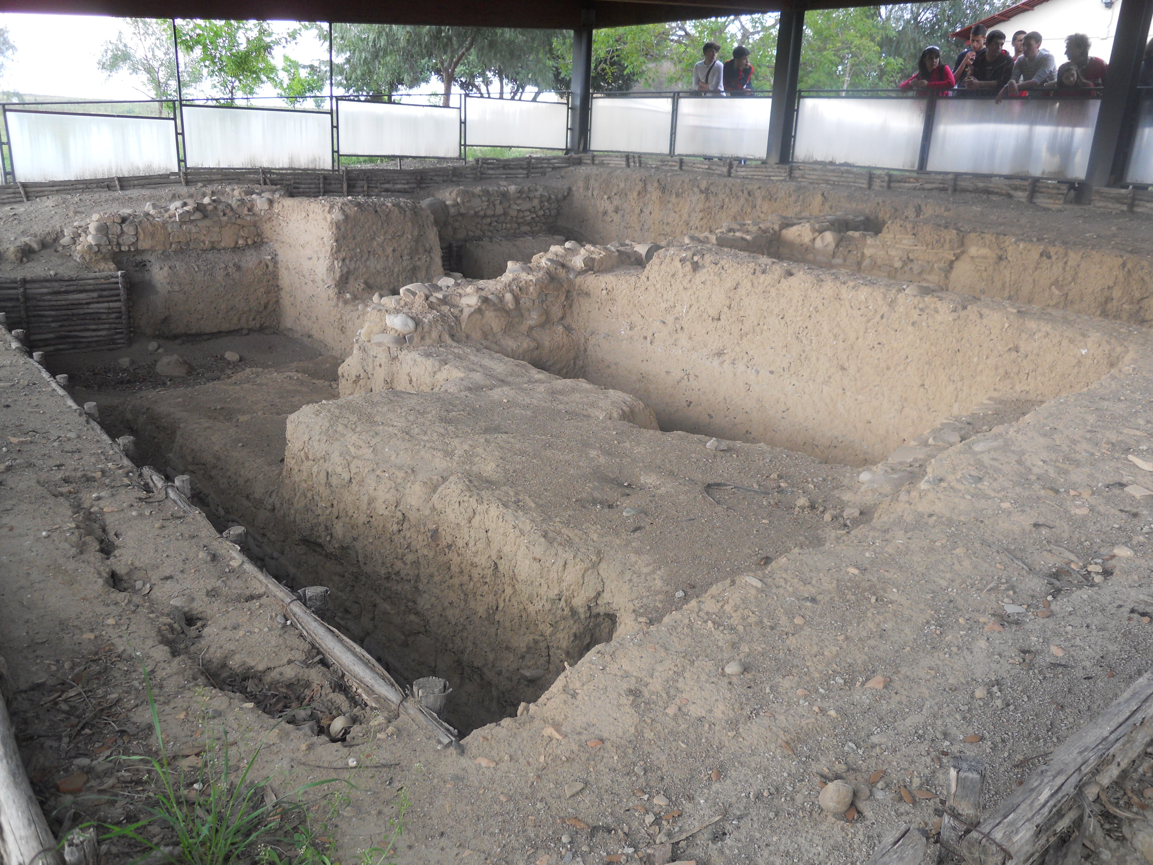 Herakleia and Siris archeological area, in the Museo nazionale della Siritide of Policoro (Italy)